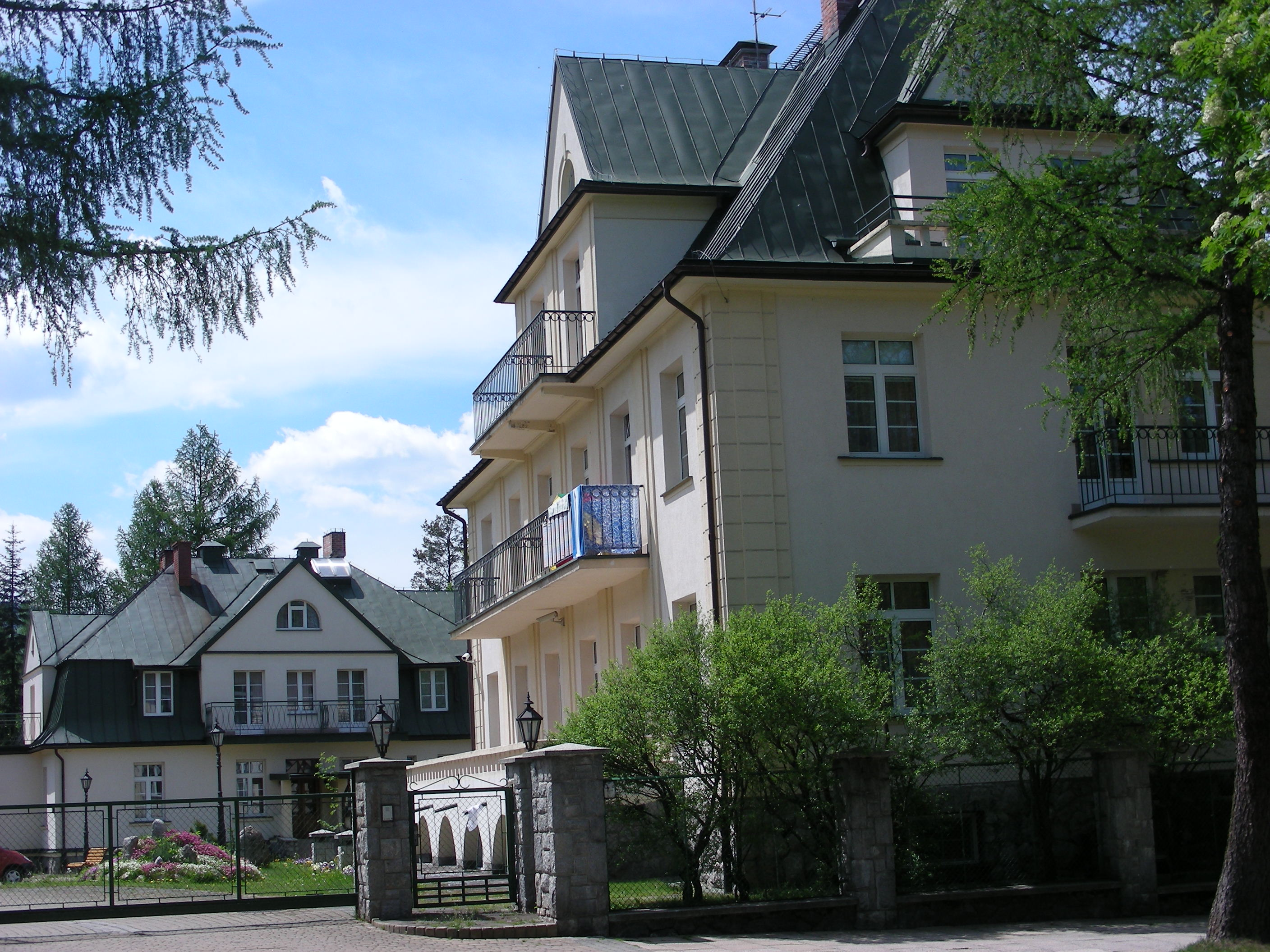 Photo of ZAiKS Author's House i Zakopane, Poland